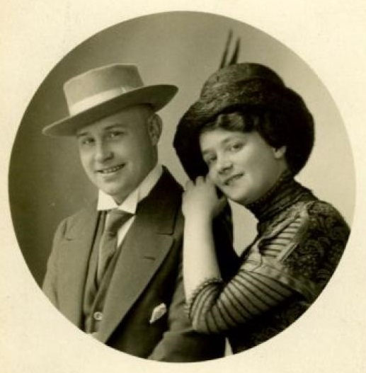 Portrait of Austrian composer Rudi Gfaller and his wife, the singer Therese Wiet (detail from a postcard)